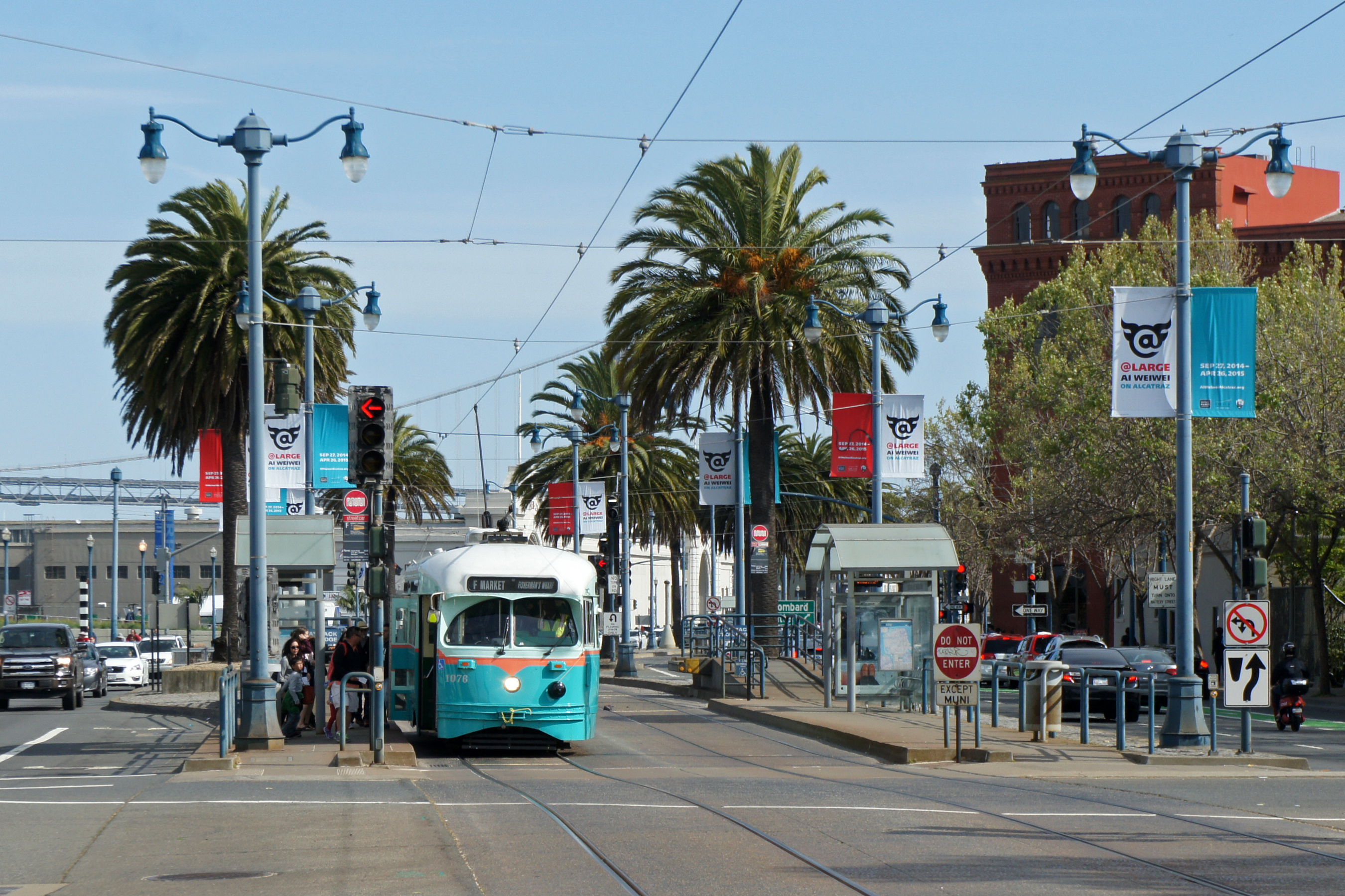 Heritage streetcar F Market Line, The Embarcadero, San Francisco